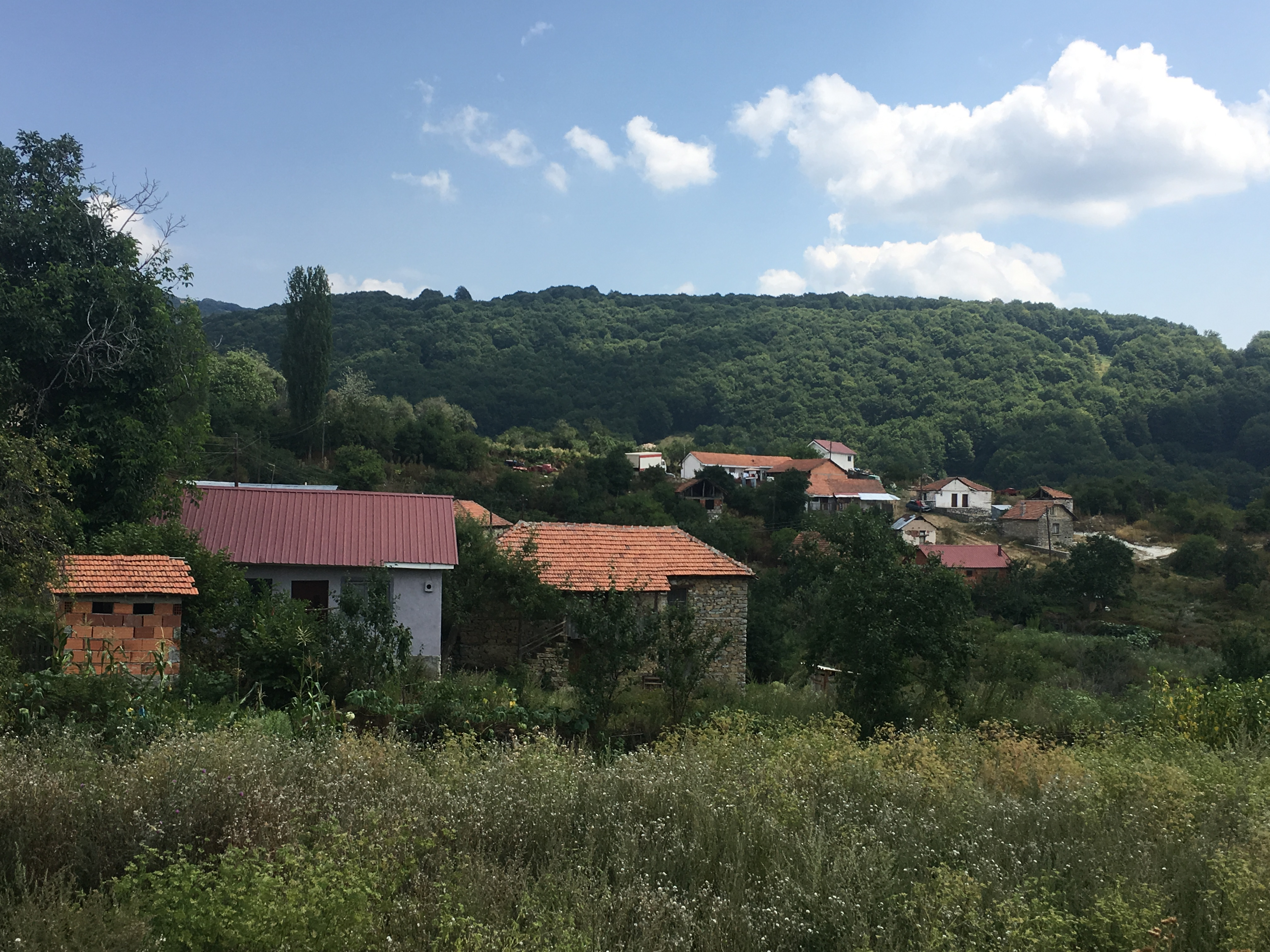 A view of the village of Plaḱe